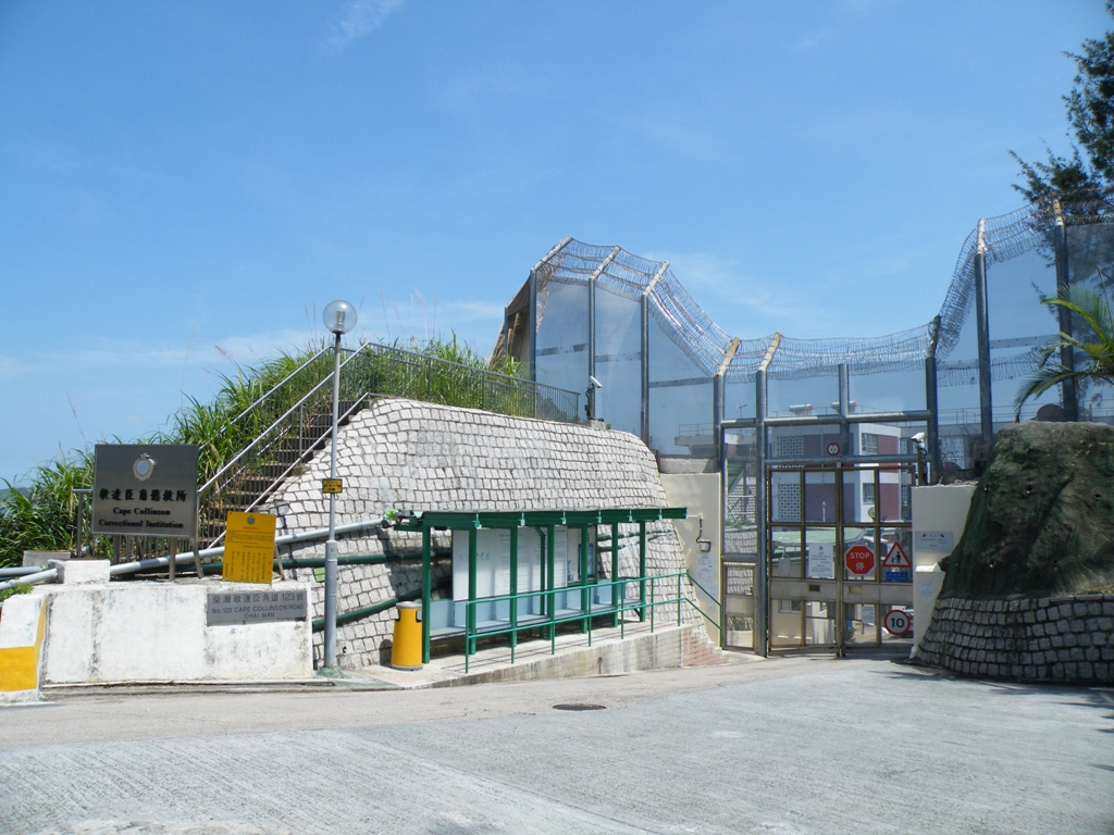 Cape Collinson Correctional Institution